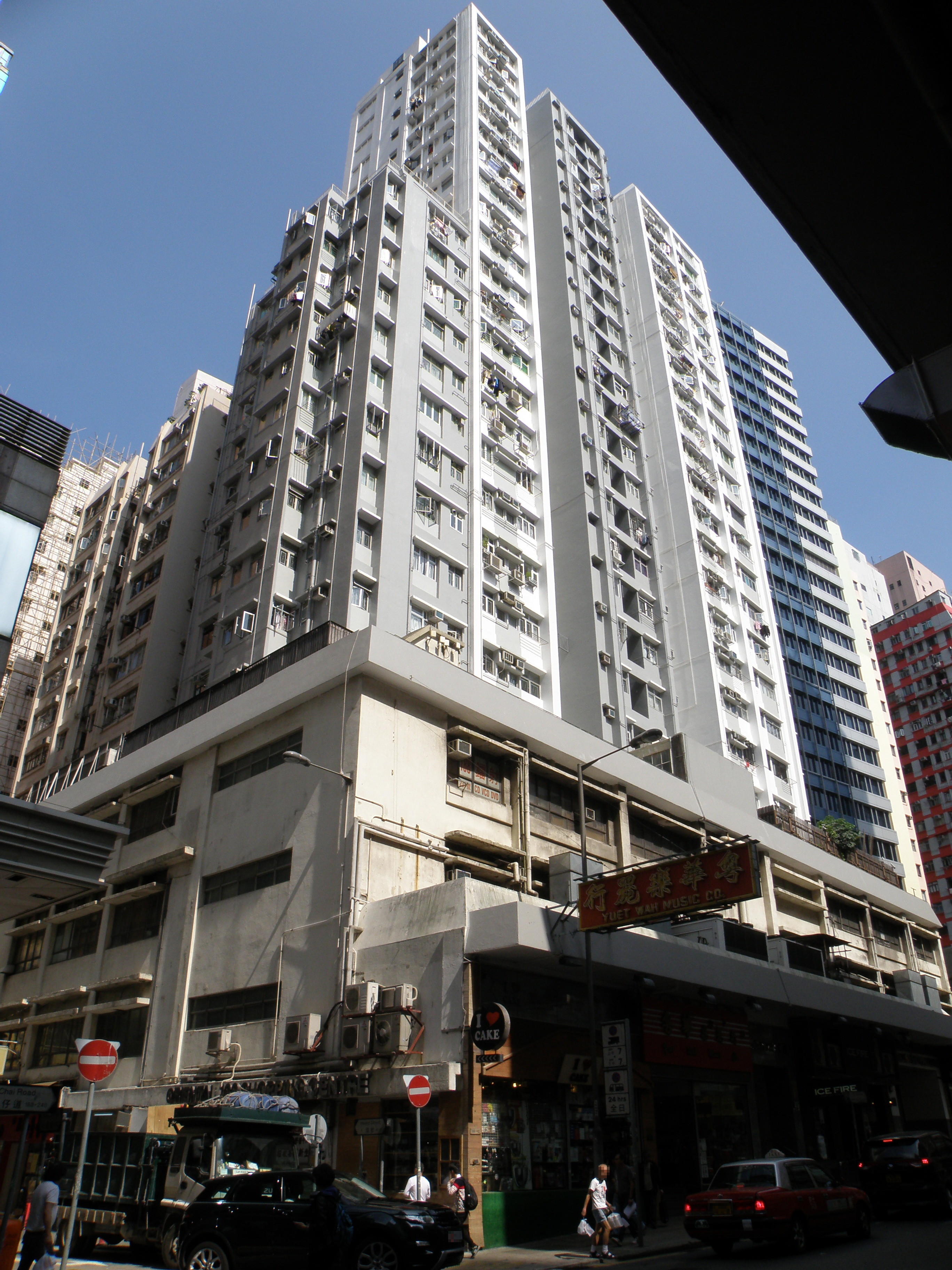 Kwong Sang Hong Building in Wan Chai, Hong Kong.